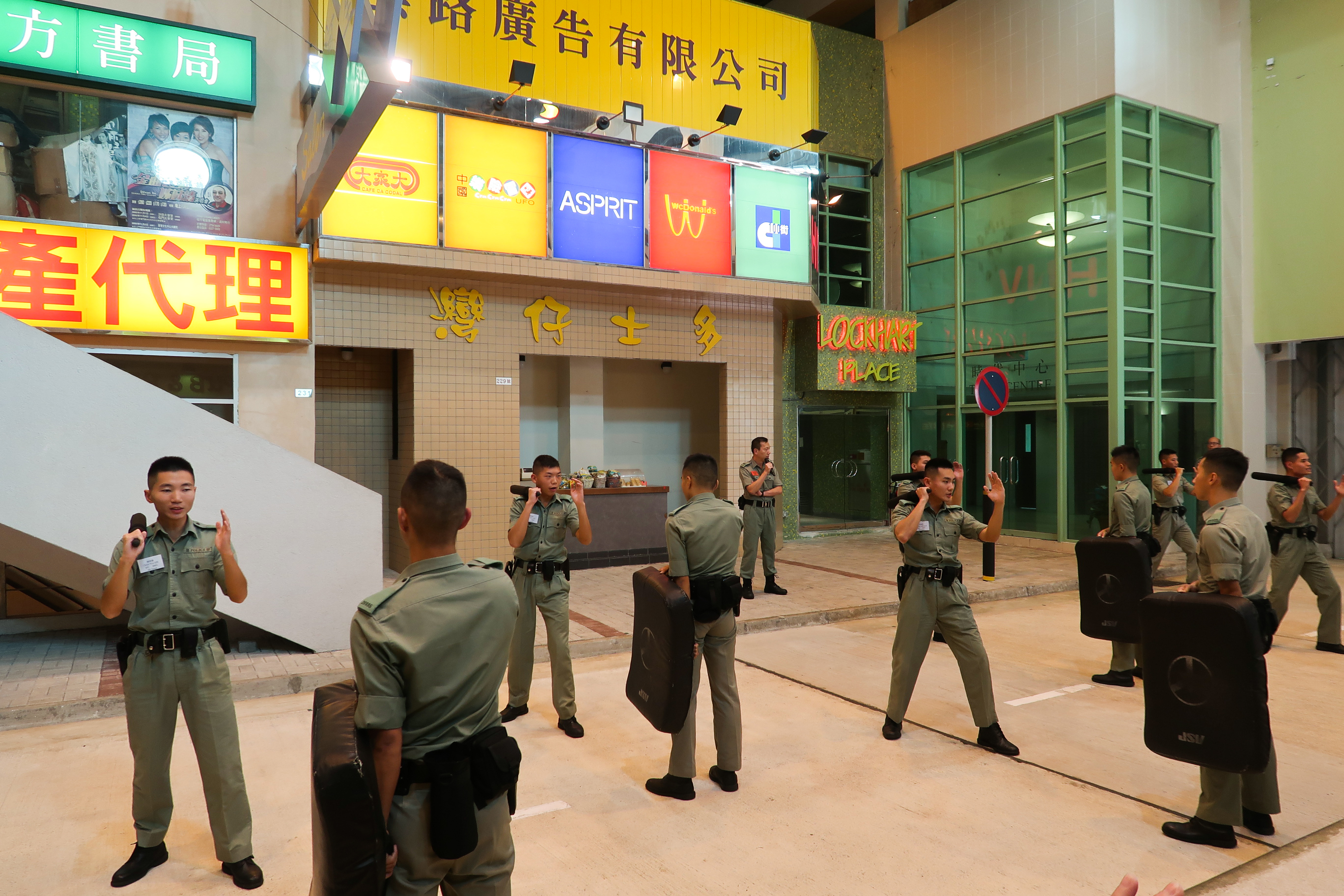 Hong Kong Police College Tactics Traning Complex